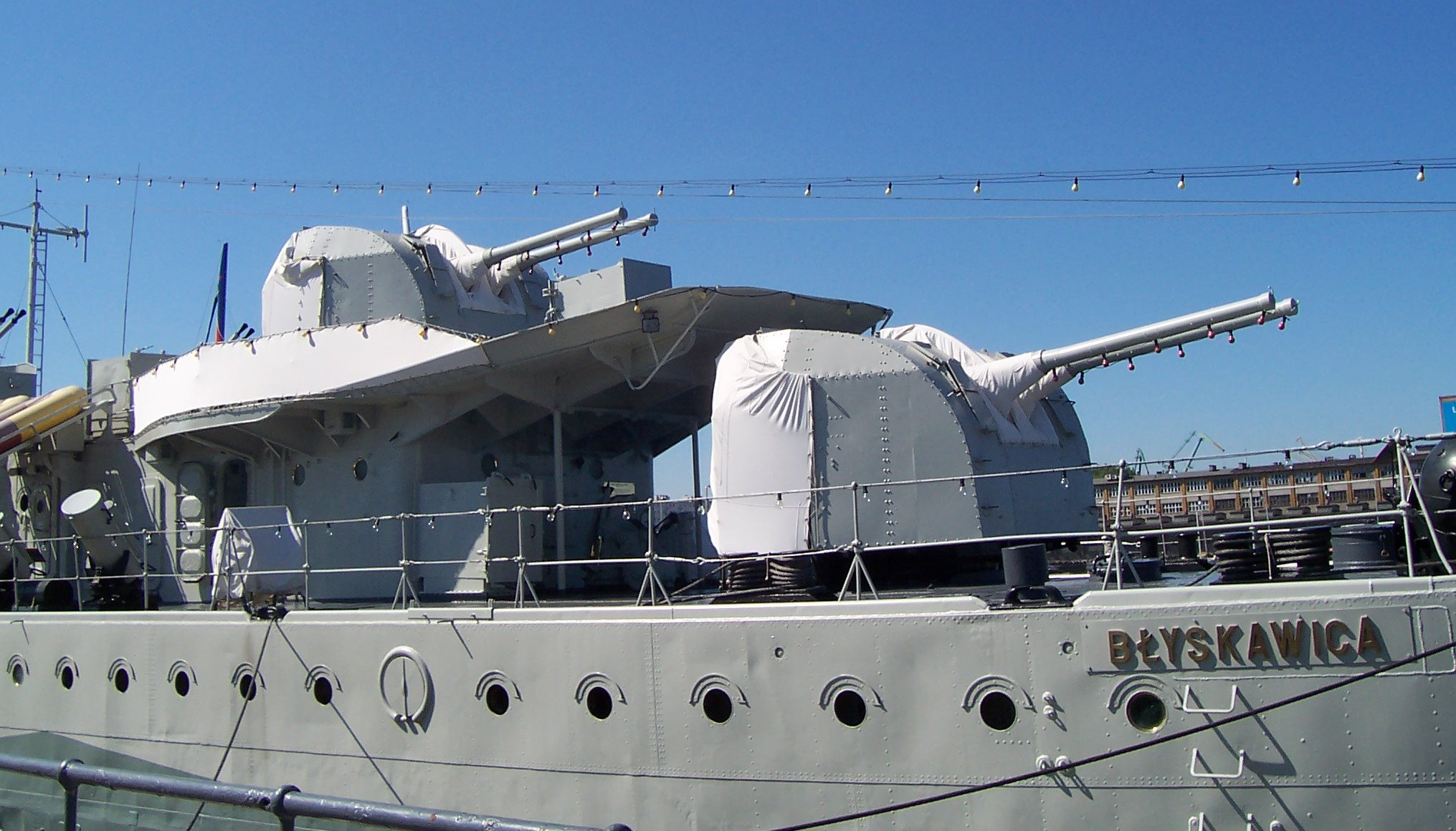 Cannons on ORP Blyskawica. This shows Russian 100 mm guns installed in 1951